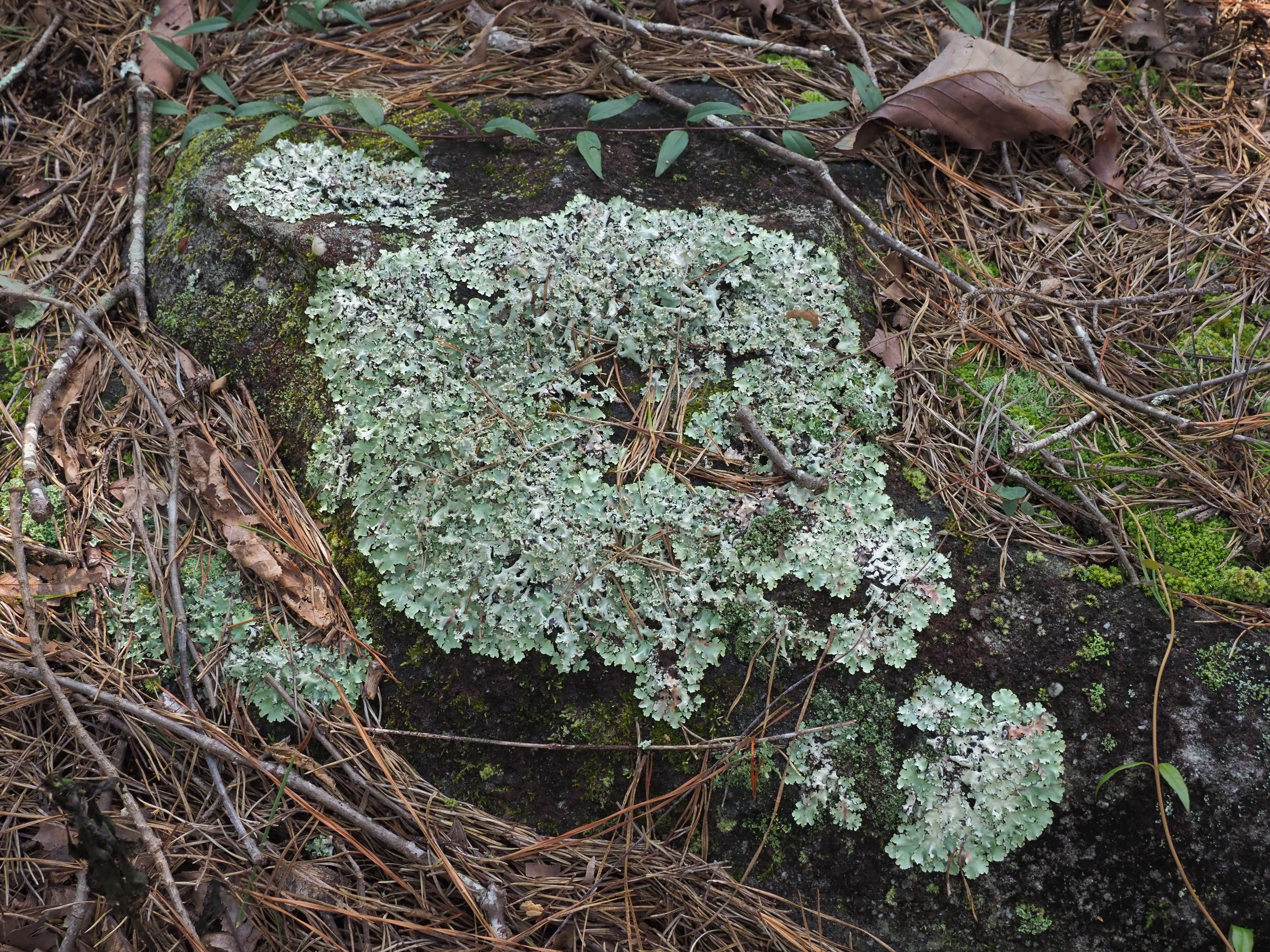 Xanthoparmelia isidiascens Hale Image location: Little River Canyon National Preserve, DeKalb Co., Alabama, USA ID by Jason Hollinger K+y-rust red P+y-o strong, black below TLC found stictic acid aggregate, not salazinic acid, so not australasica. Recognized by sight For more information about this, see the observation page at Mushroom Observer.